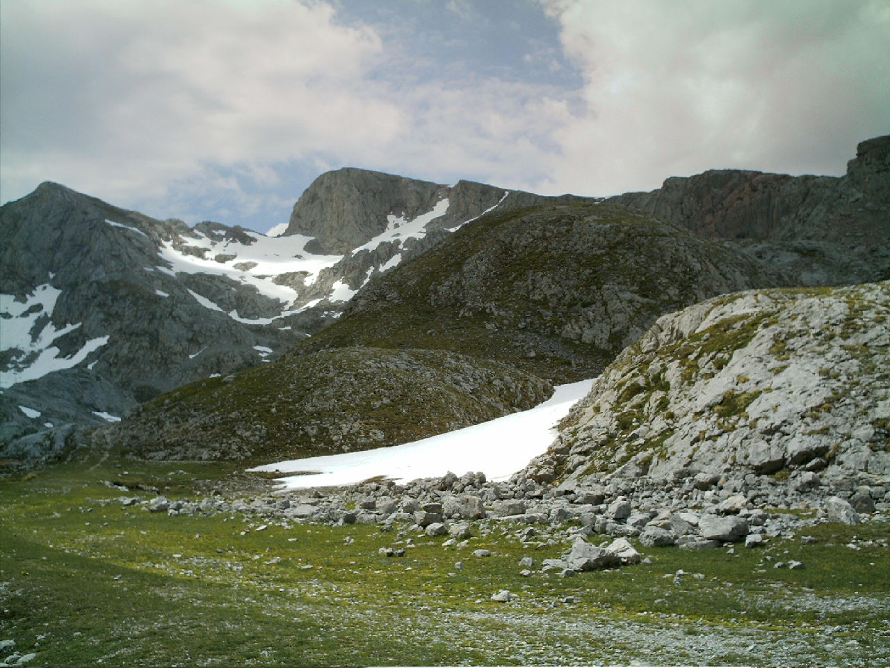 Image taken on June 11, 2005 in the Eastern Massif of the Picos de Europa.